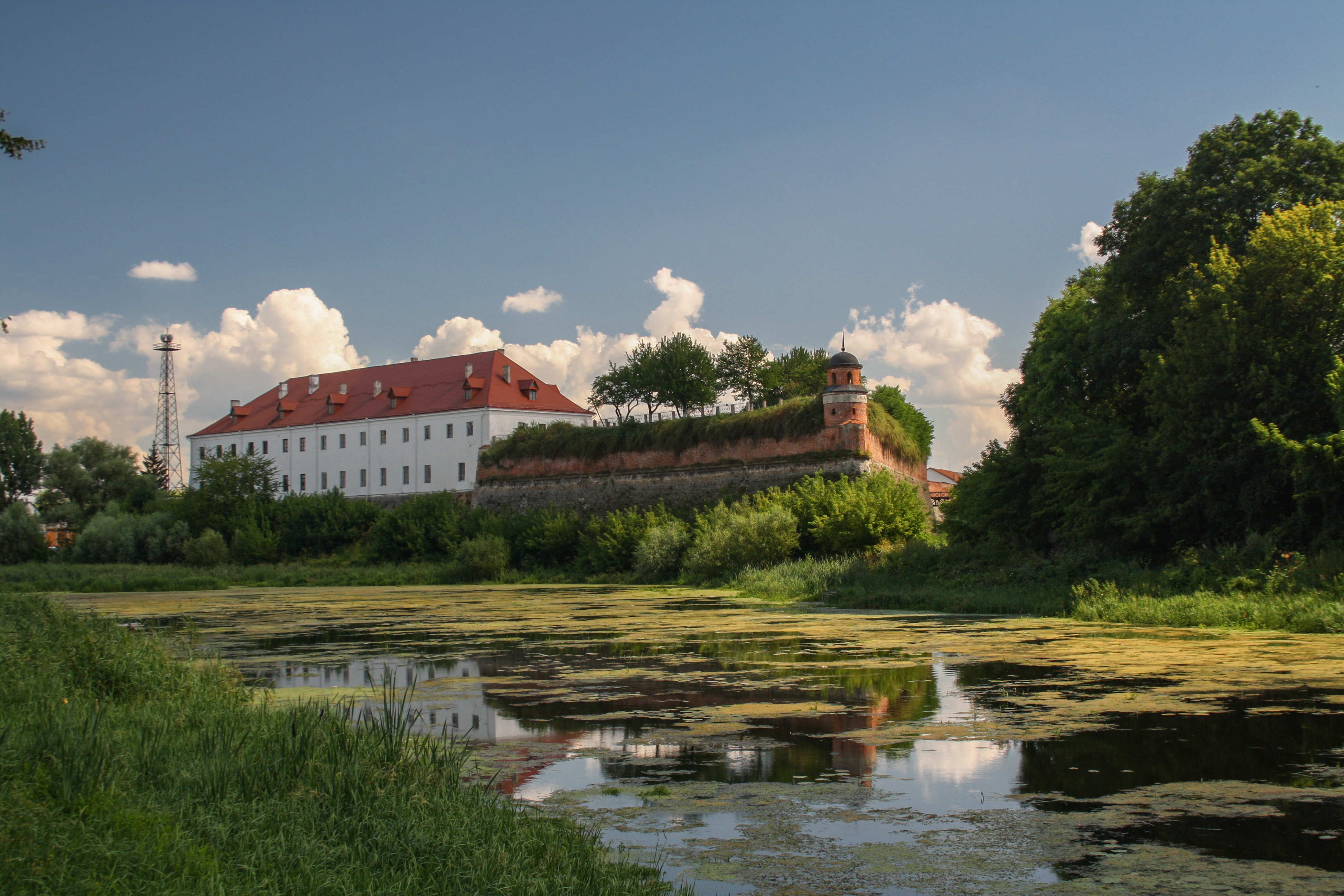 Dubno Castle of Ostrogski-Lubomirski